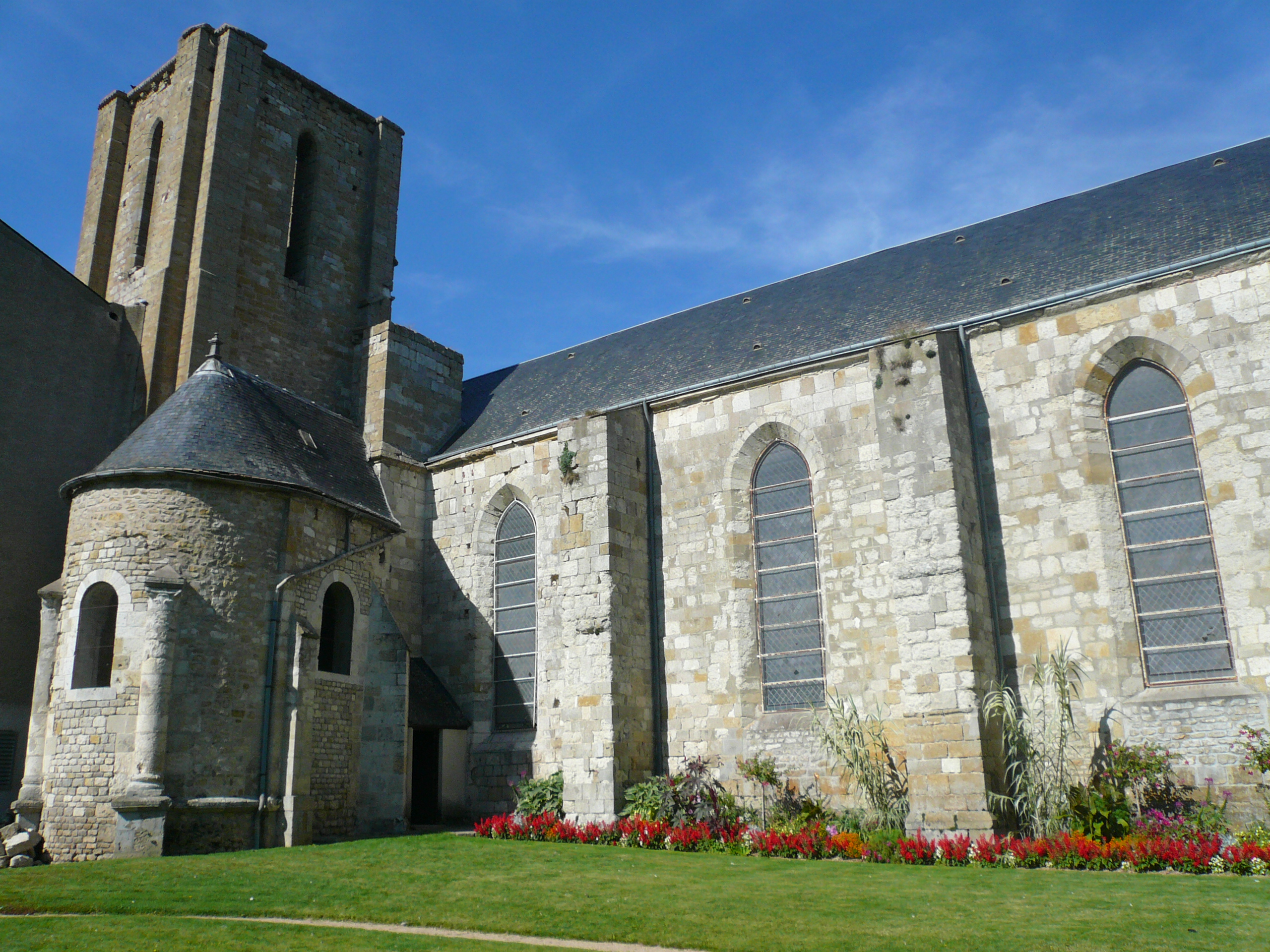 Ruins of church St. George in Pithiviers, Loiret, France